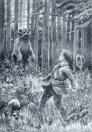 An illustration from Jules Verne's novel "César Cascabel" (1890) drawn by George Roux.